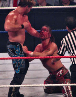 A bloodied HBK at the GAB